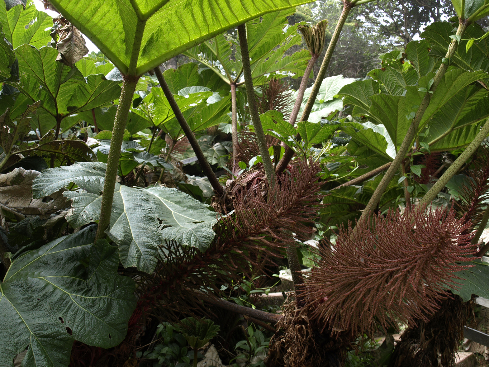 Poas Volcano, Costa Rica